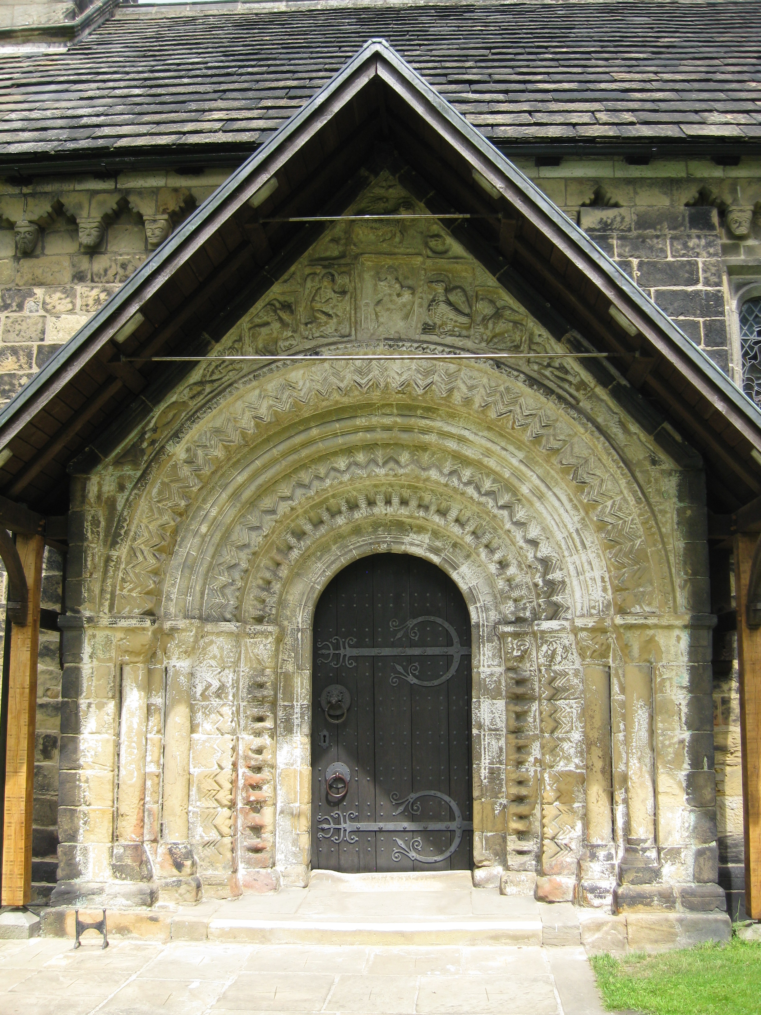 Porch and Norman south doorway of the parish church of St John the Baptist, Church Lane, Adel, Leeds, West Yorkshire